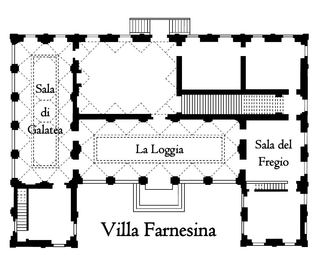 Map of the Villa Farnesina